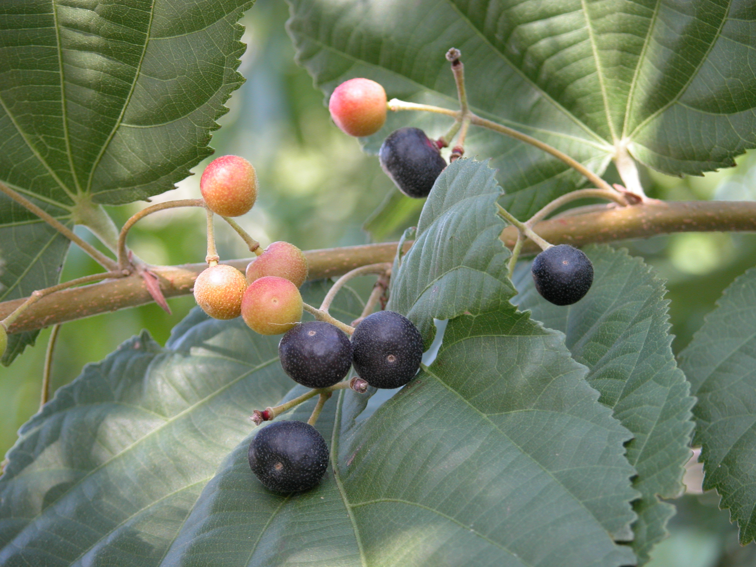 The Phalsa tree (Grewia asiatica / Tiliaceae) is located in the Ghosh Grove, Rockledge, Florida.